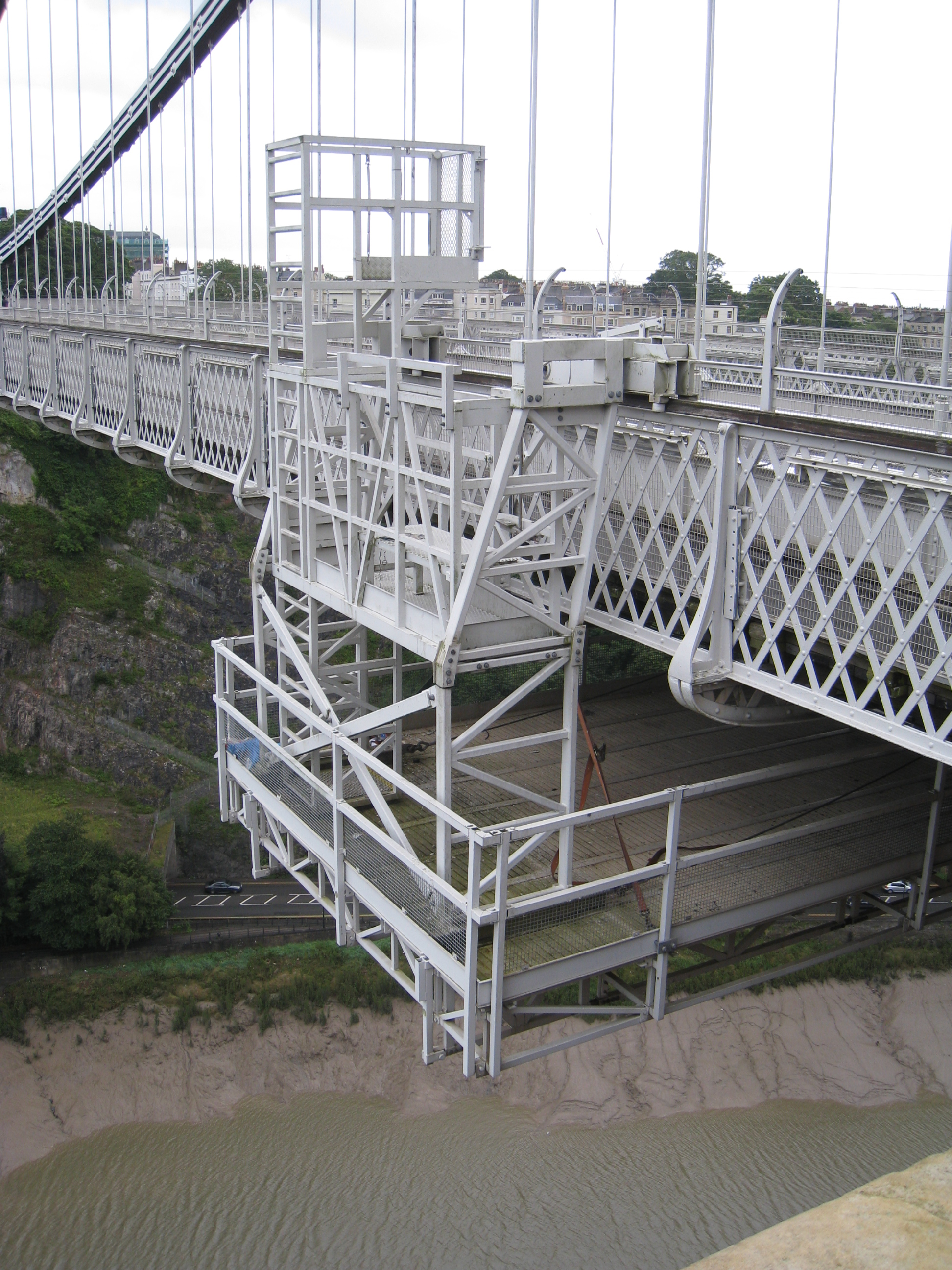 Maintenance Cradle, Clifton Bridge, Bristol